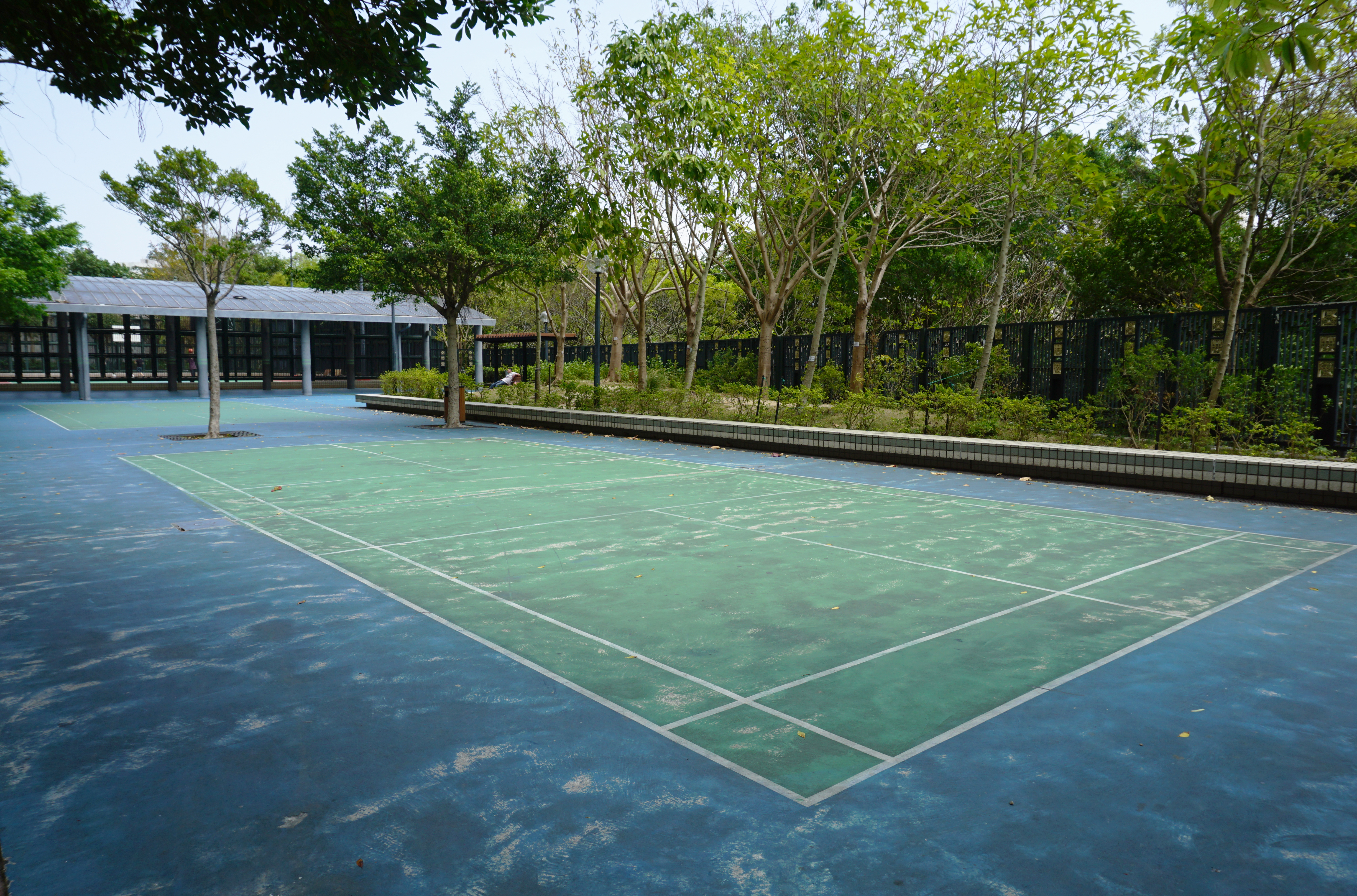 Ching Ho Estate in Sheung Shui, Hong Kong.